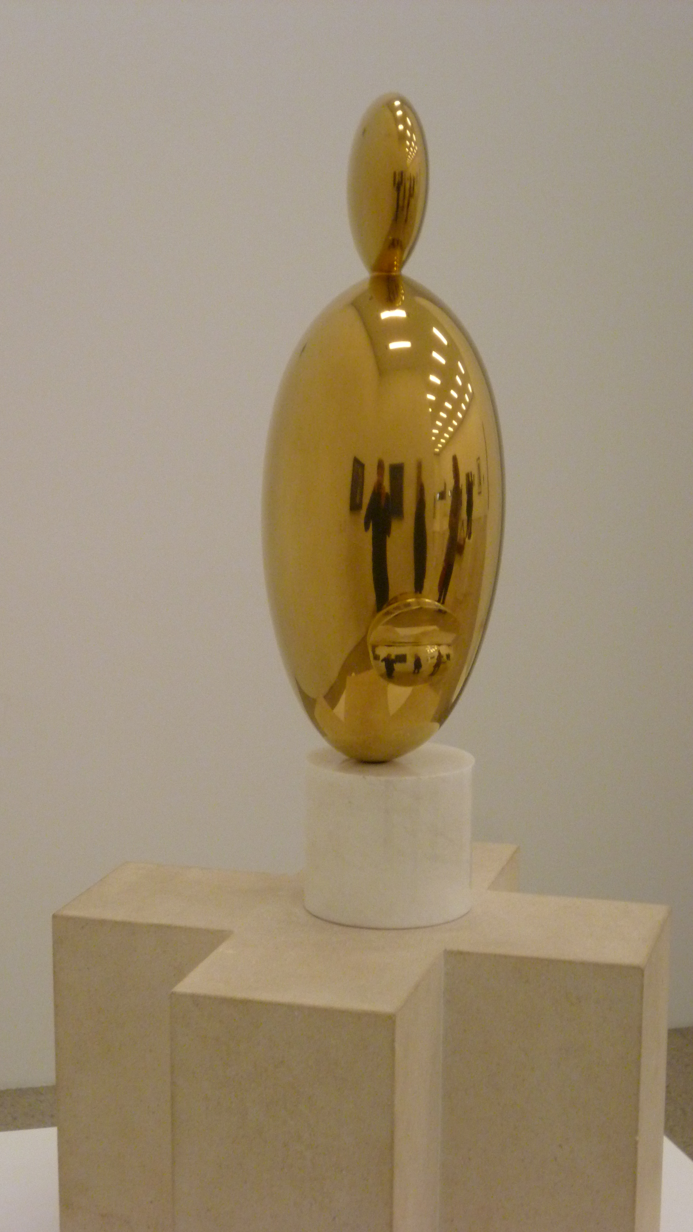 La Négresse Blonde II by Constantin Brâncuși 1933. Exposed in the Mumok, Vienna, Austria. Freedom of Panorama This picture of an otherwise copyrighted work may be distributed under the conditions of § 54 (1) Z. 5 of the Austrian copyright law which allows to reproduce, distribute, and publish architectural works of an actual building or other works of visual arts which were created to permanently remain at a public place. Note: Due to the principle of Lex loci protectionis, this applies only to reuse of this picture in Austria. Reuse in other countries is subject to local law. Further information can be found on Commons and in German Wikipedia.